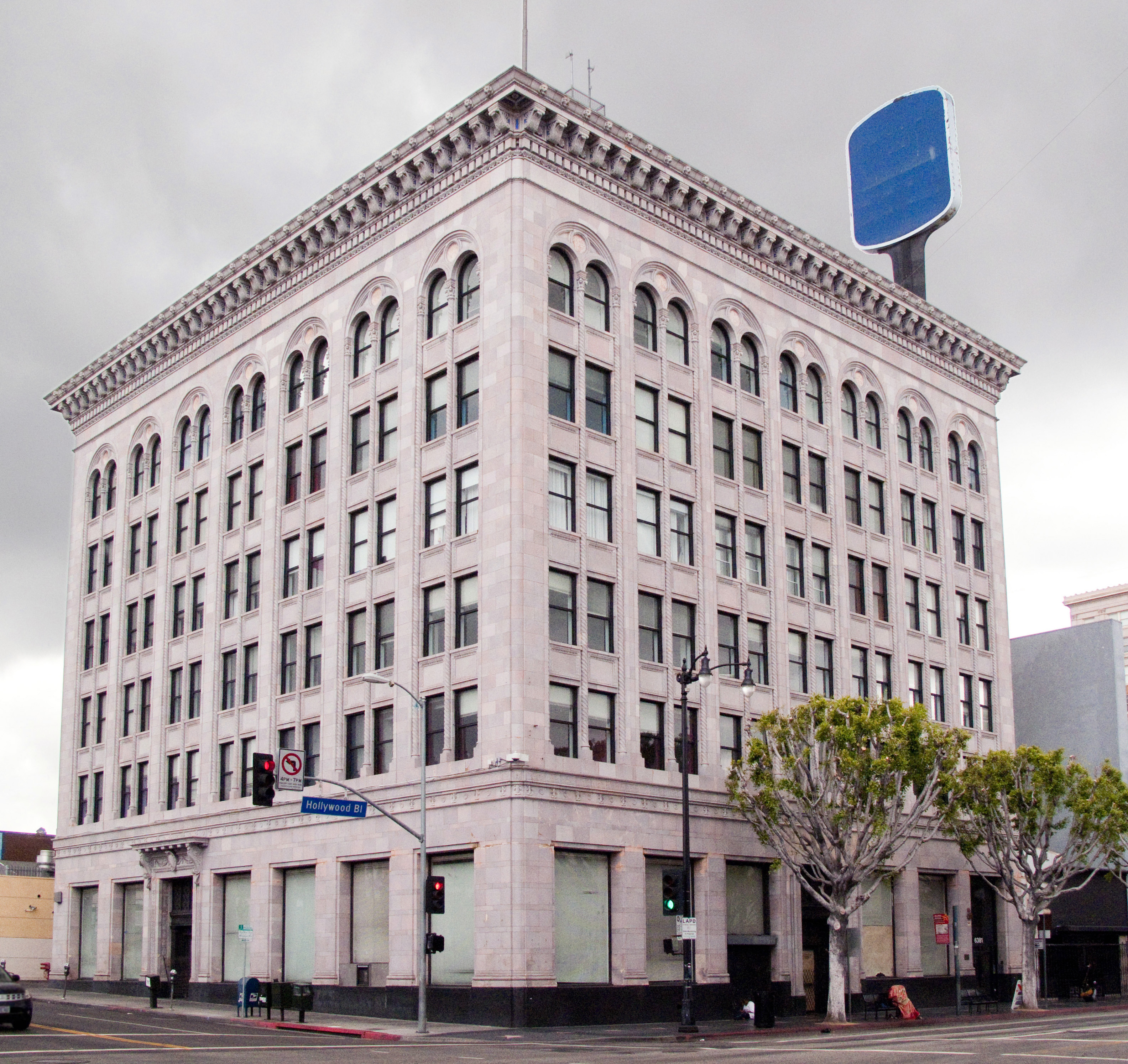 The historic Security Trust and Savings Building at the corner of Cahuenga and Hollywood Boulevards, Hollywood, California.